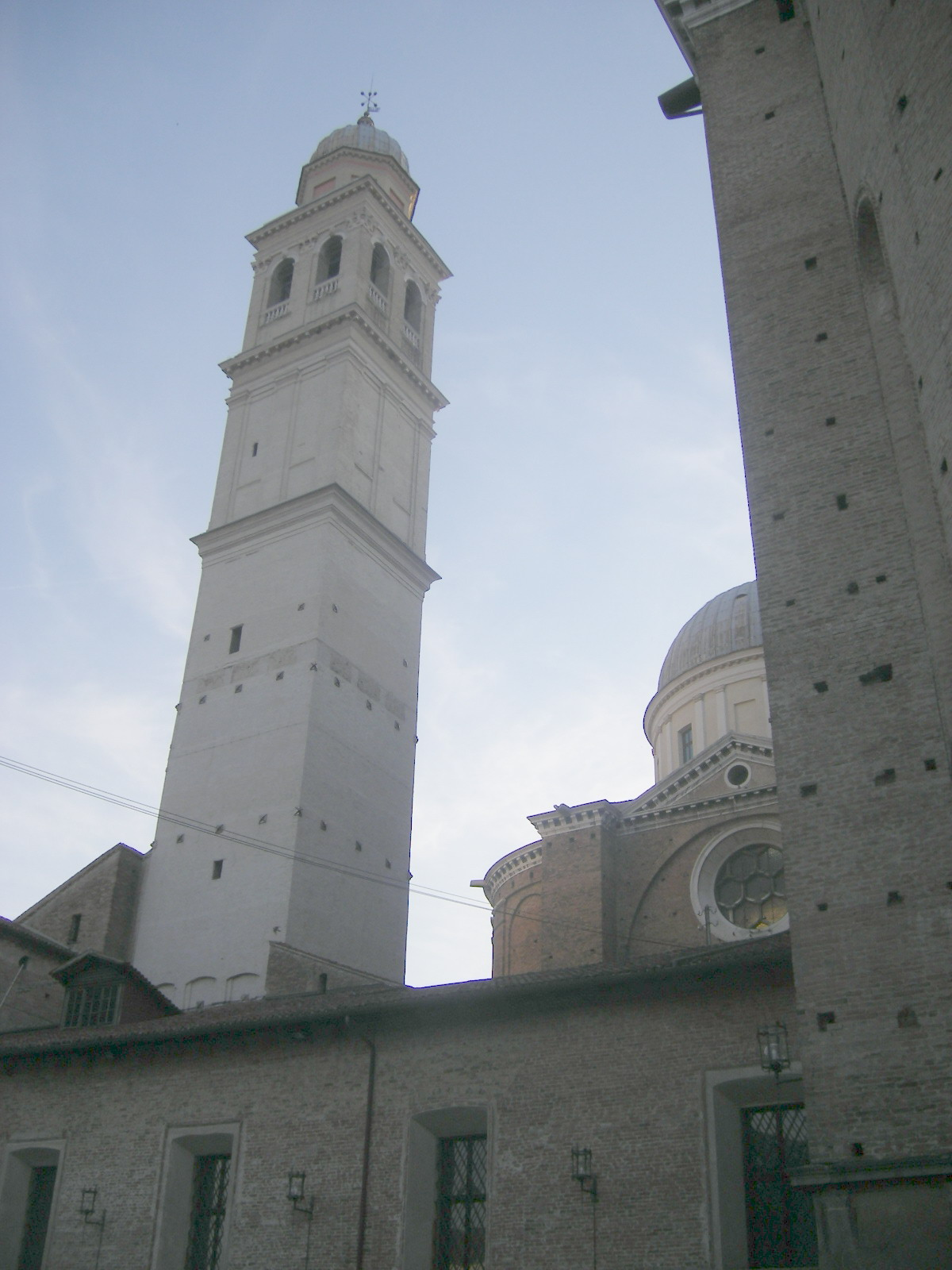 Padova - Cathedral